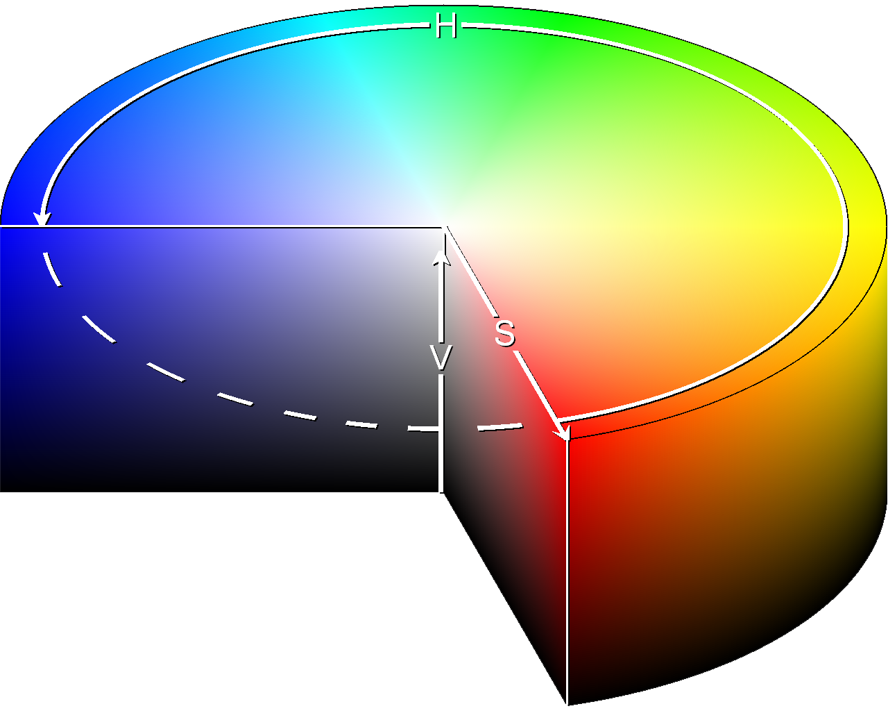 Image created by User:(3ucky(3all using Borland Delphi 2006, Adobe Photoshop 9.0.